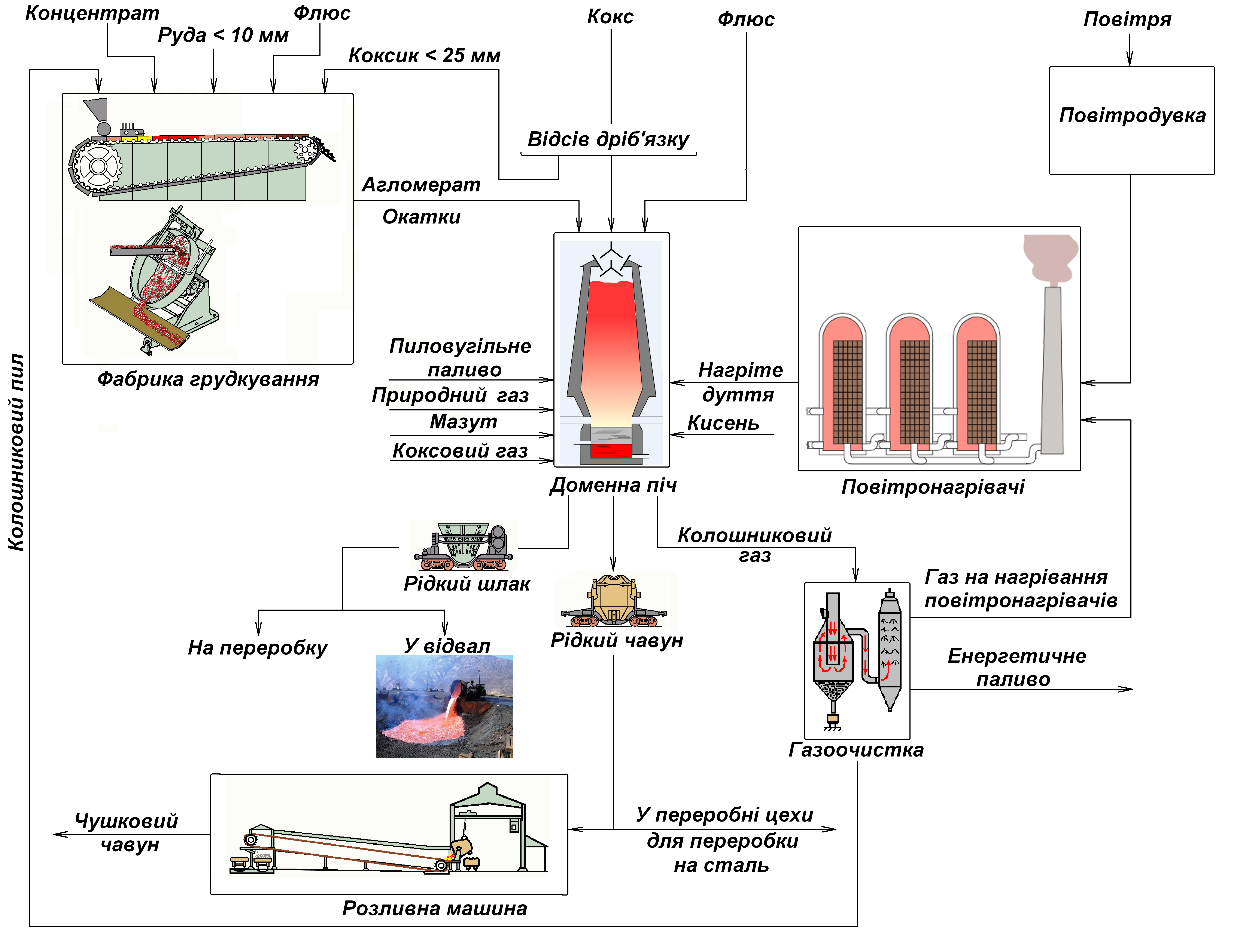 Flow chart of blast-furnace production.